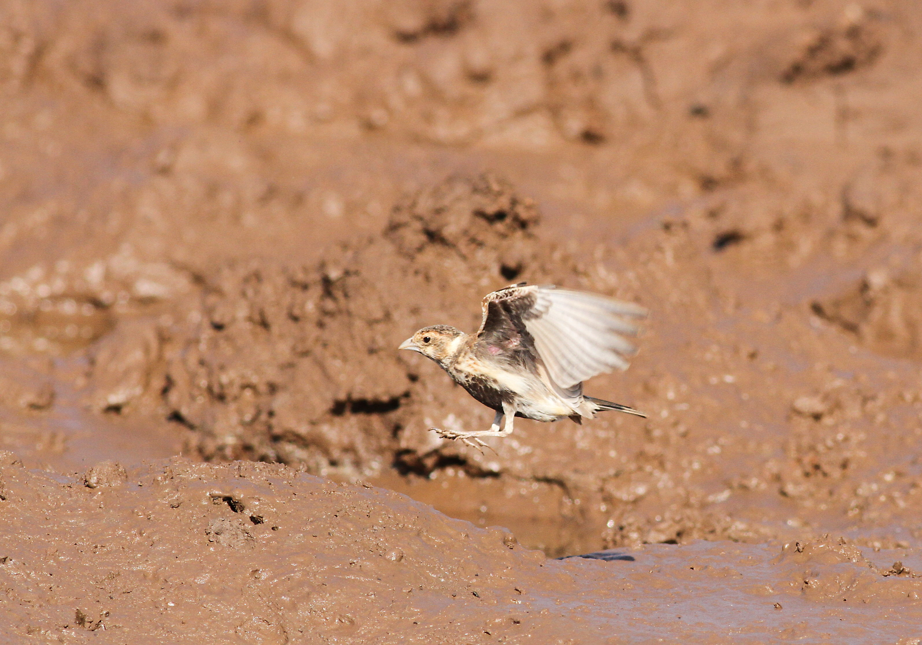 Chestnut-backed sparrow-lark,Eremopterix leucotis at Mapungubwe National Park, Limpopo, South Africa